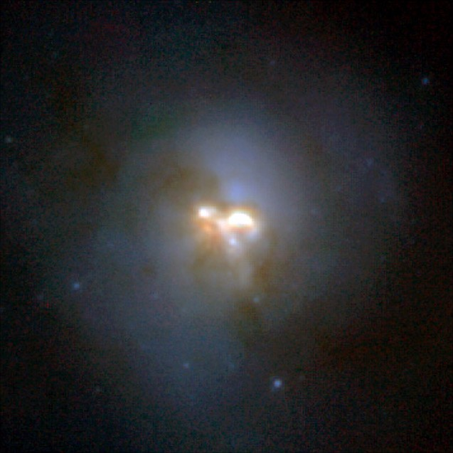 The Hubble Space Telescope's Near Infrared Camera and Multi-Object Spectrometer (NICMOS) has uncovered a collision between two spiral galaxies in the heart of the peculiar galaxy called Arp 220. The collision has provided the spark for a burst of star formation. The NICMOS image captures bright knots of stars forming in the heart of Arp 220. The bright, crescent moon-shaped object is a remnant core of one of the colliding galaxies. The core is a cluster of 1 billion stars. The core's half-moon shape suggests that its bottom half is obscured by a disk of dust about 300 light-years across. This disk is embedded in the core and may be swirling around a black hole. The core of the other colliding galaxy is the bright round object to the left of the crescent moon-shaped object. Both cores are about 1,200 light-years apart and are orbiting each other. Arp 220, located 250 million light-years away in the constellation Serpens, is the 220th object in Halton Arp's Atlas of Peculiar Galaxies. The image was taken with three filters. The colors have been adjusted so that, in this infrared image, blue corresponds to shorter wavelengths, red to longer wavelengths. The image was taken April 5, 1997.